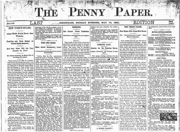 Front page of The (Cincinnati) Penny Paper on Monday, May 16, 1881